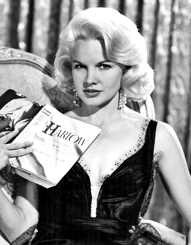 Publicity photo of Carroll Baker for film Harlow (1965). See also film still. No copyright notice shown on original photo.